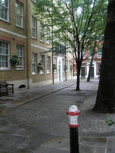 Eastern side of Wardrobe Place I met an American lady here who was also looking at historical sites. She commented how distinctive English names often are; but, as I reminded her, US place names are also very evocative